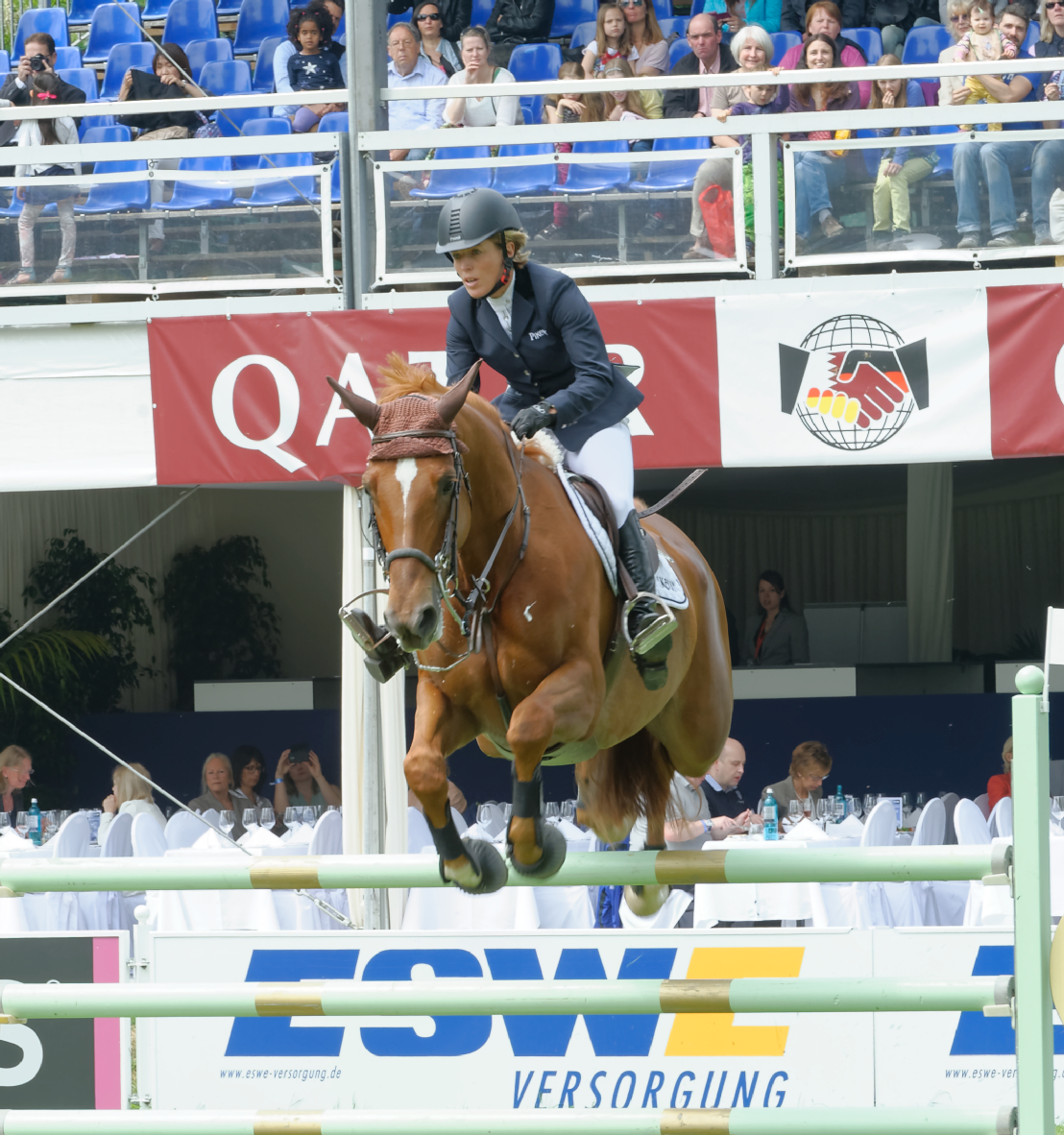 CSIYH* int. Springprüfung nach Strafpunkten und Zeit Internationales Pfingstturnier Wiesbaden 2015 The making of this document was supported by the Community-Budget of Wikimedia Germany.